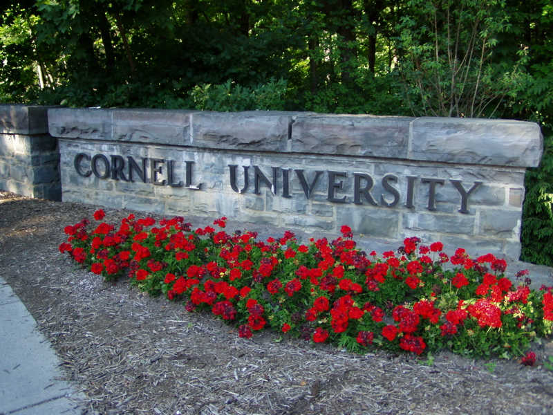 Taken in Ithaca, NY, in July 2005. This sign marks the southern entrance to Cornell University's West Campus. See also a wintertime version of the same scene.